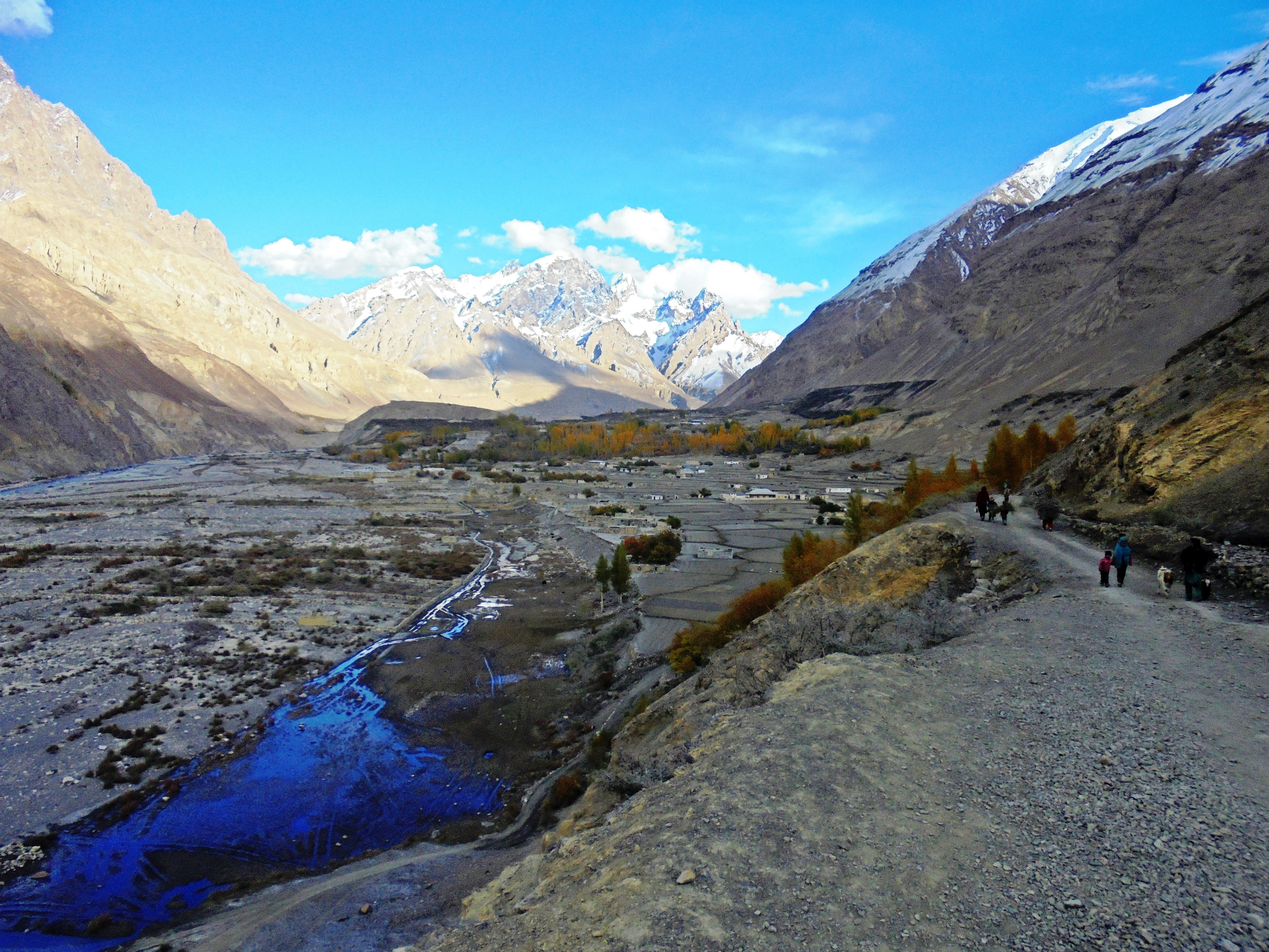 October is the wedding season, Kutch(migration) season and the season of peerless colors in Shimshal village. Shimshal Road opening anniversary takes place on 25th of October every year in Shimshal.